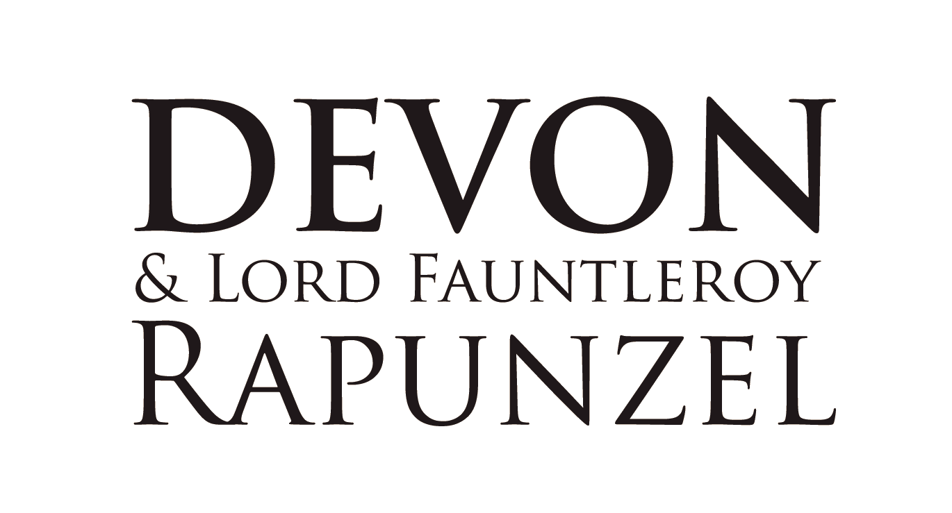 Sample of the font Goudy Trajan